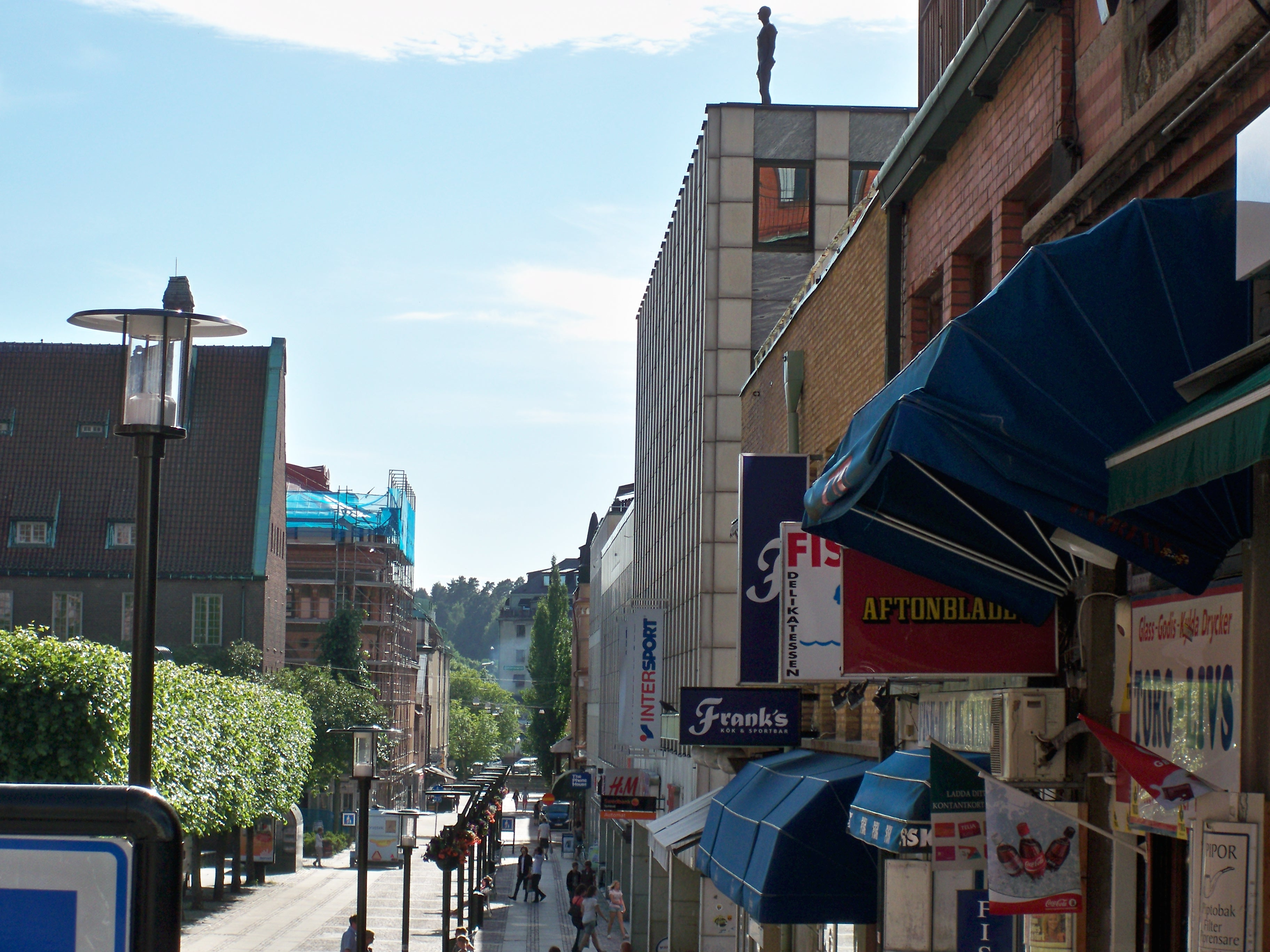 Another time VIII, an installation art work by the British sculptor Antony Gormley, participated in the biennial Borås International Sculpture Festival in 2010. The view shows Torggatan, a street in Borås, Sweden, the summer of 2010.